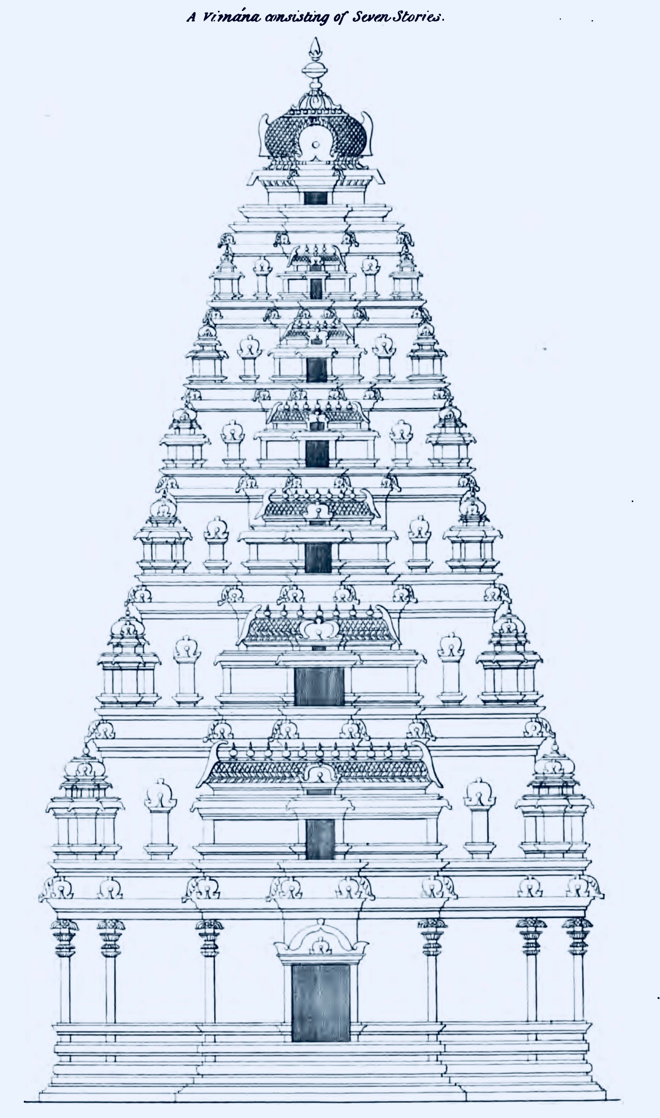 This is a photo of sketches made by Ram Raz and published in 1834. The source images can be found in Ram Raz (1834) Essay on the Architecture of the Hindus, Royal Asiatic Society of Great Britain and Ireland. A scholarly review of this source: Madhuri Desai (2012), Interpreting an Architectural Past Ram Raz and the Treatise in South Asia, Journal of the Society of Architectural Historians, Vol. 71, No. 4, pages 462-487